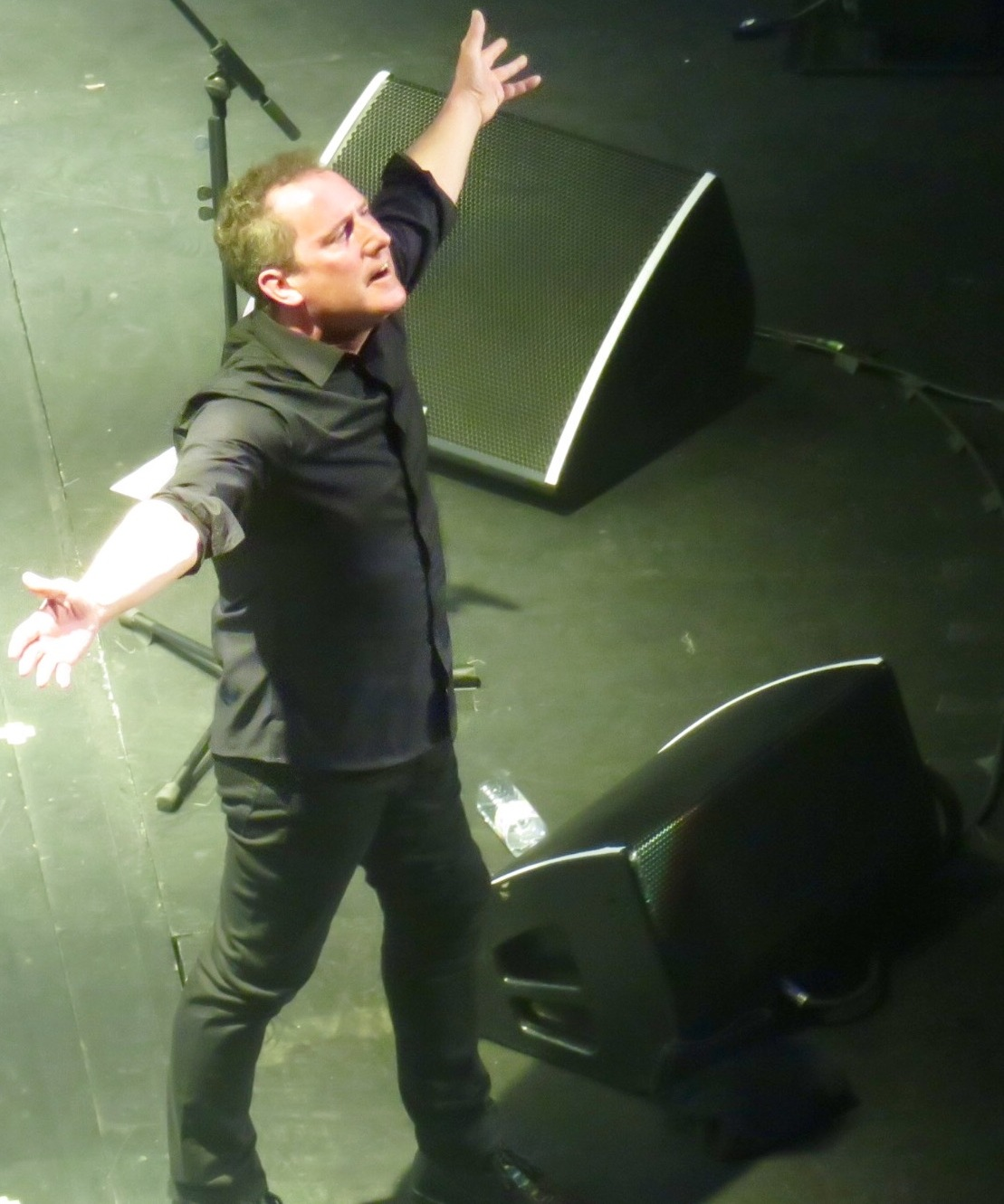 OMD's Andy McCluskey at the Royal Albert Hall, May 2016